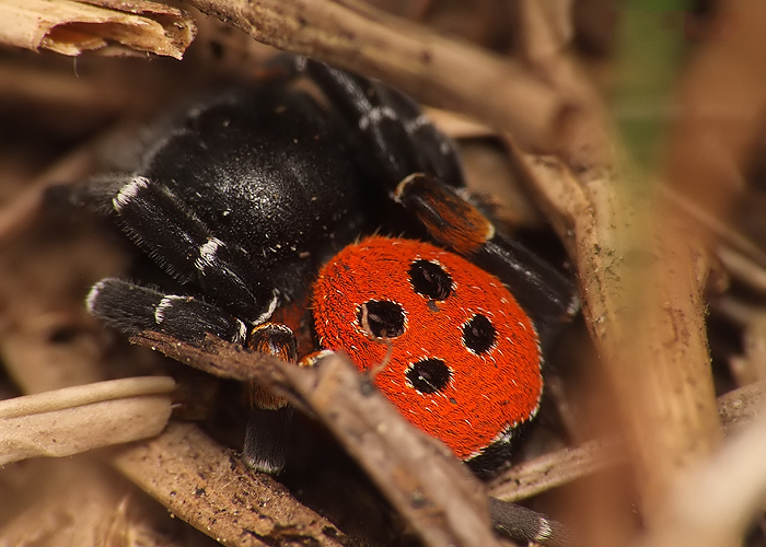 Eresus cinnaberinus (male) in his natural habitat